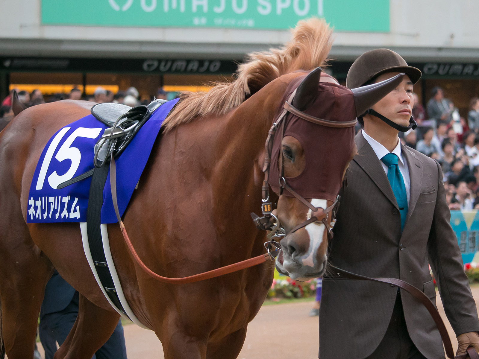 Neorealism (Racehorse of Japan).